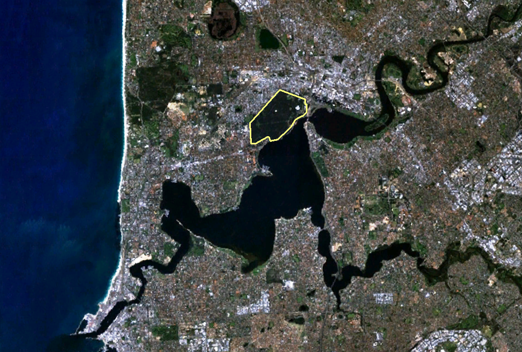 Kings Park, Western Australia. NASA WorldWind landsat7 image with park boundary highlighted